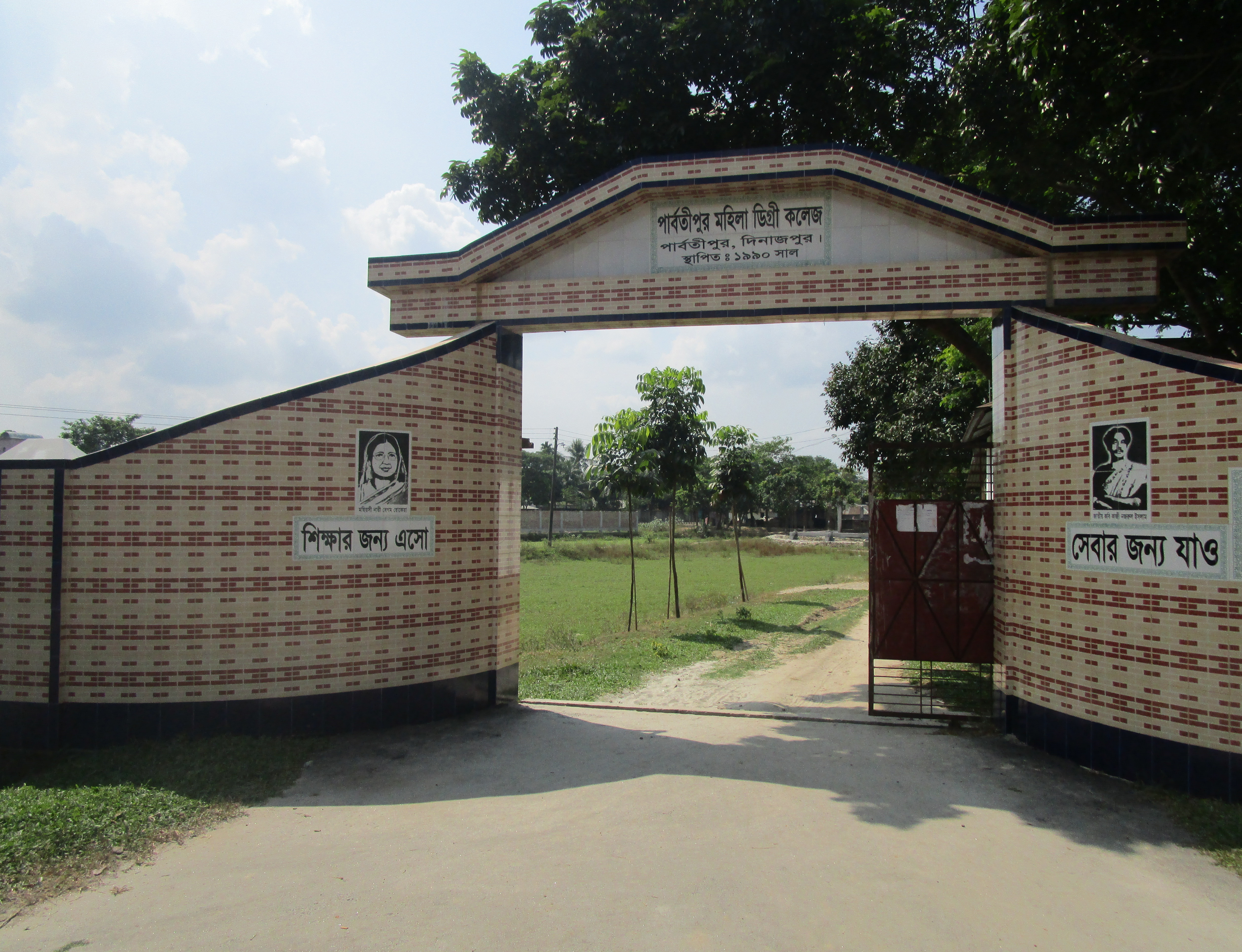 The mai gate of Parbatipur Womens College